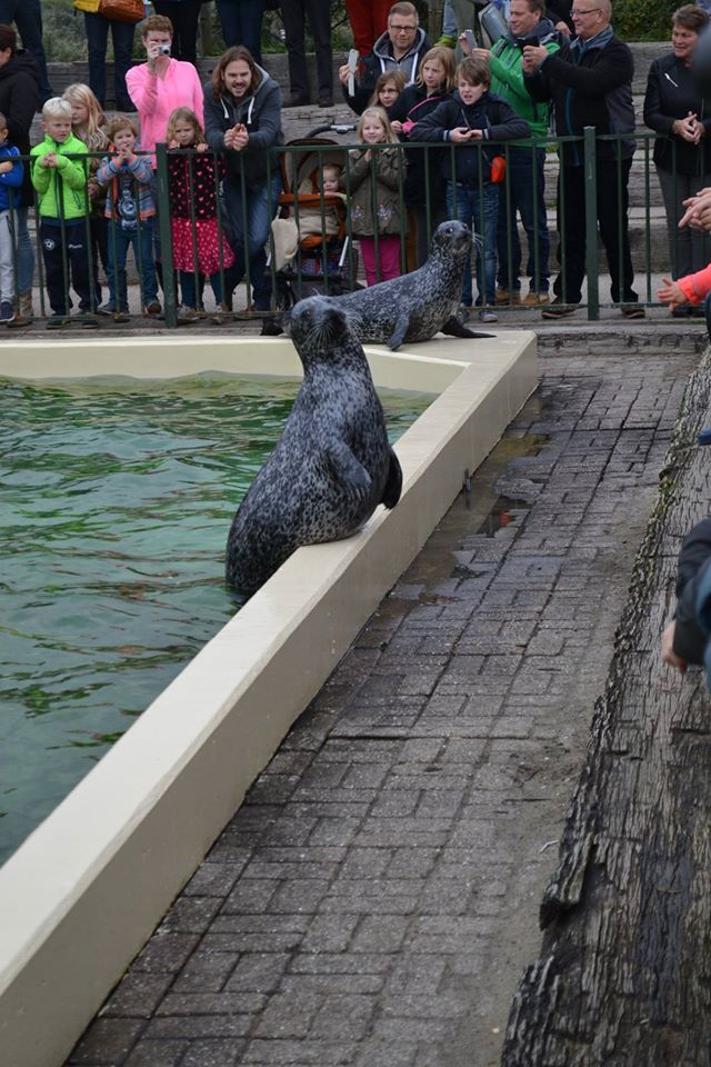 Zeehond Show Neeltje jans